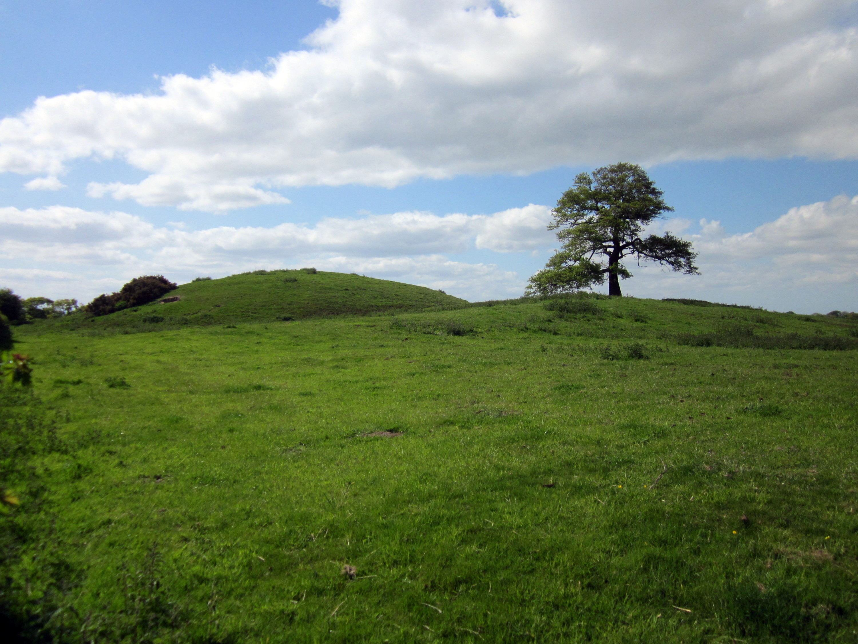 Eglwys Cross Motte (Mount Cop Castle)